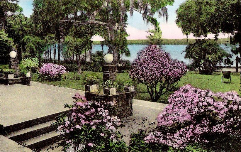 View of Lake Maitland from veranda of The Hotel Alabama, Winter Park, FL; from a c. 1922 postcard published by The Albertype Company. The hotel was converted to condominiums in 1980-1981.